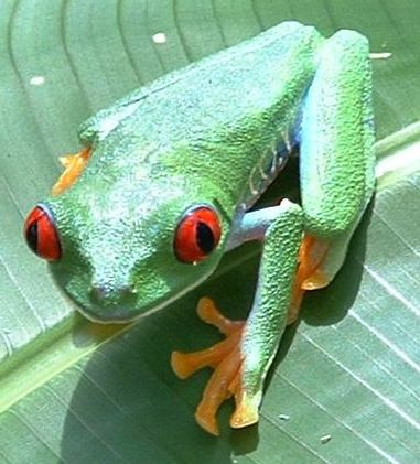 Agalychnis callidryas (Red-eyed Tree Frog), Costa Rica